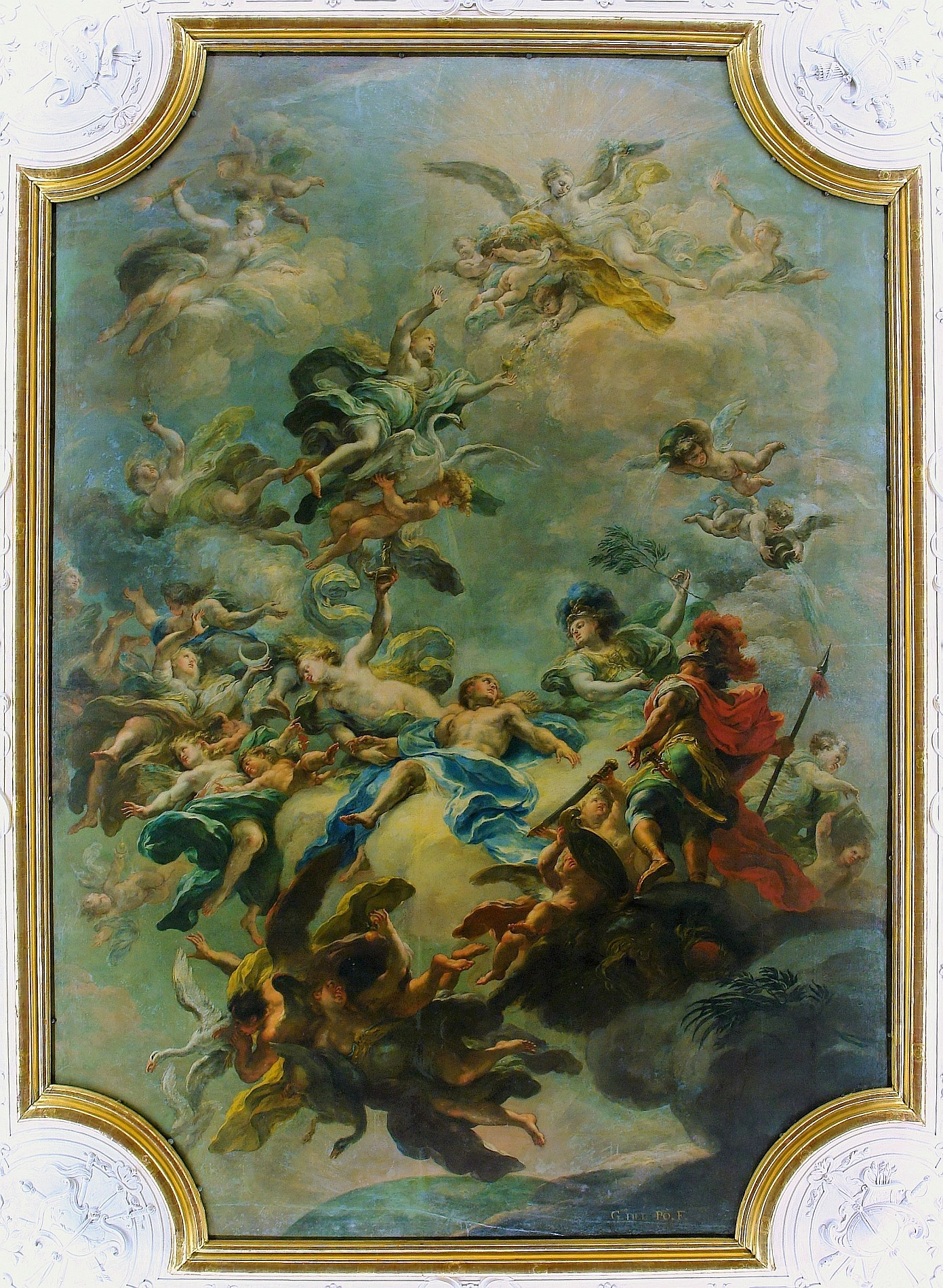 Ceiling Painting by Giacomo de Po in the Obere Belvedere (Vienna)